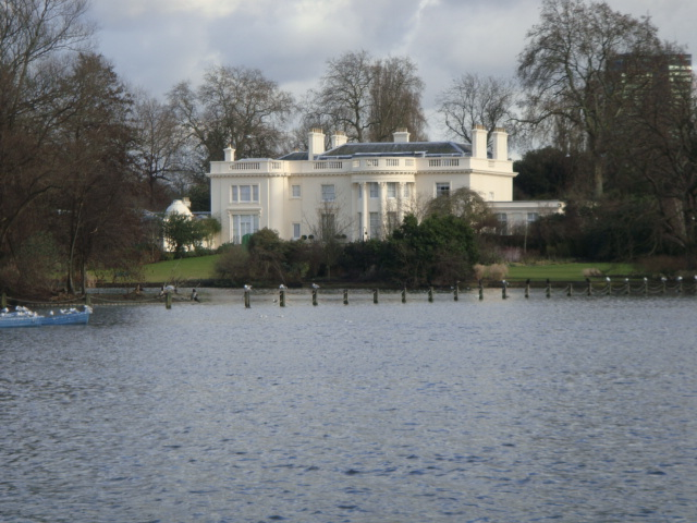 The Holme, Regent's Park. It is hard to imagine that this beautiful villa is right in the centre of London. The Holme is one of two villas remaining from the early 19th century when Regent's Park was laid out by the architect John Nash. Seen here, across the boating lake, it could be easily mistaken for a country house.